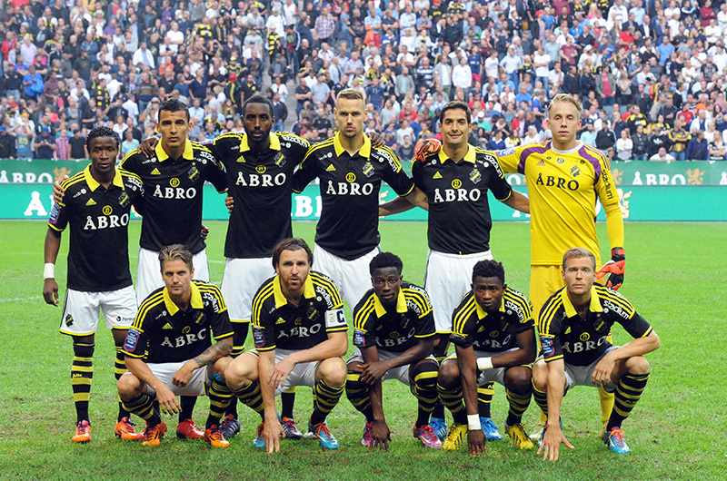 AIK team before the home derby vs. Djurgården